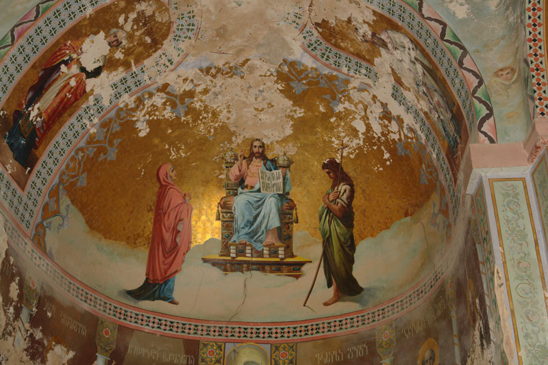 Shio-Mgvime Monastery. The 19th-century murals